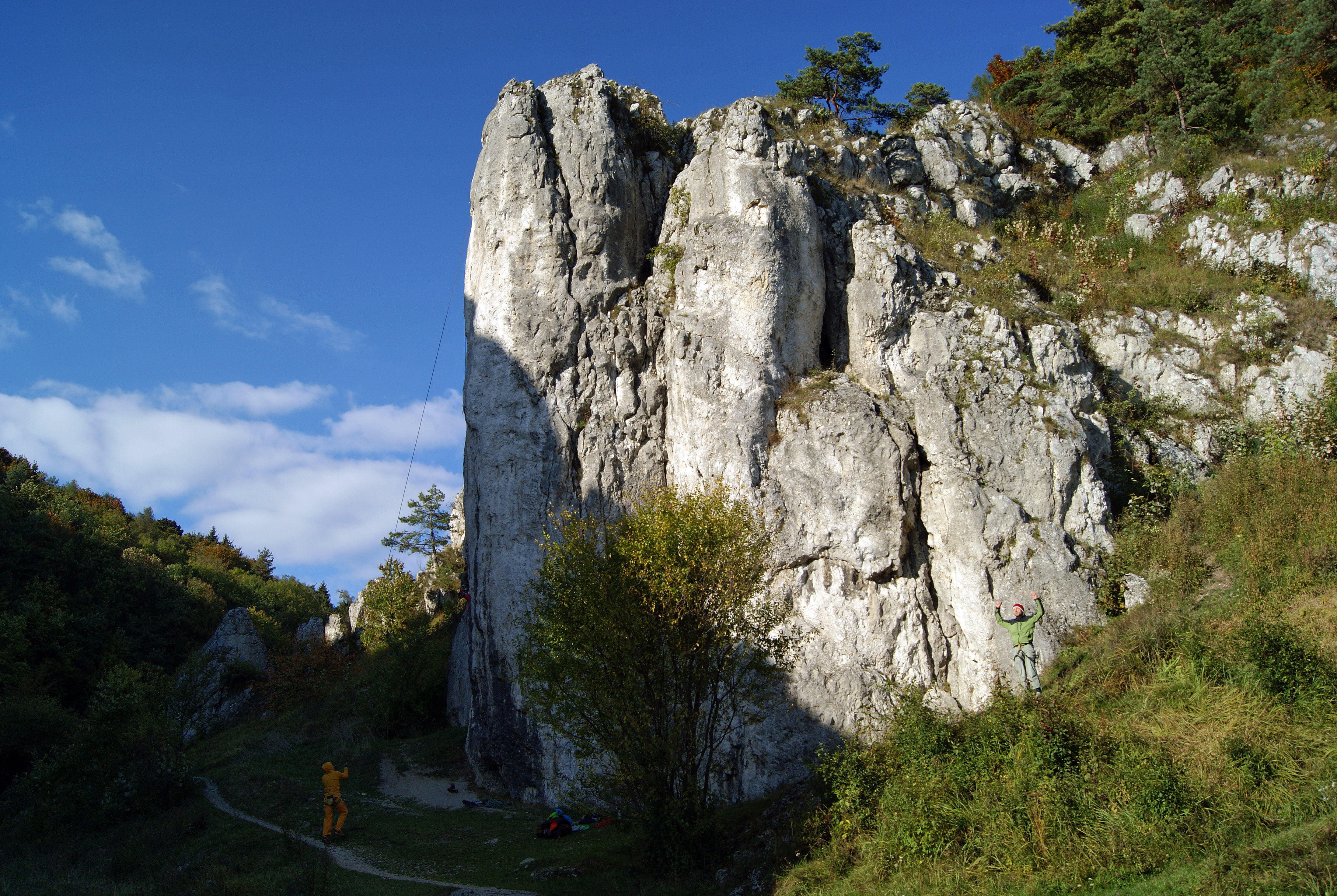 Bolechowicki Gully Nature reserve, Bolechowicka Gate (E pier), Karniowice village, Kraków County, Lesser Poland Voivodeship, Poland